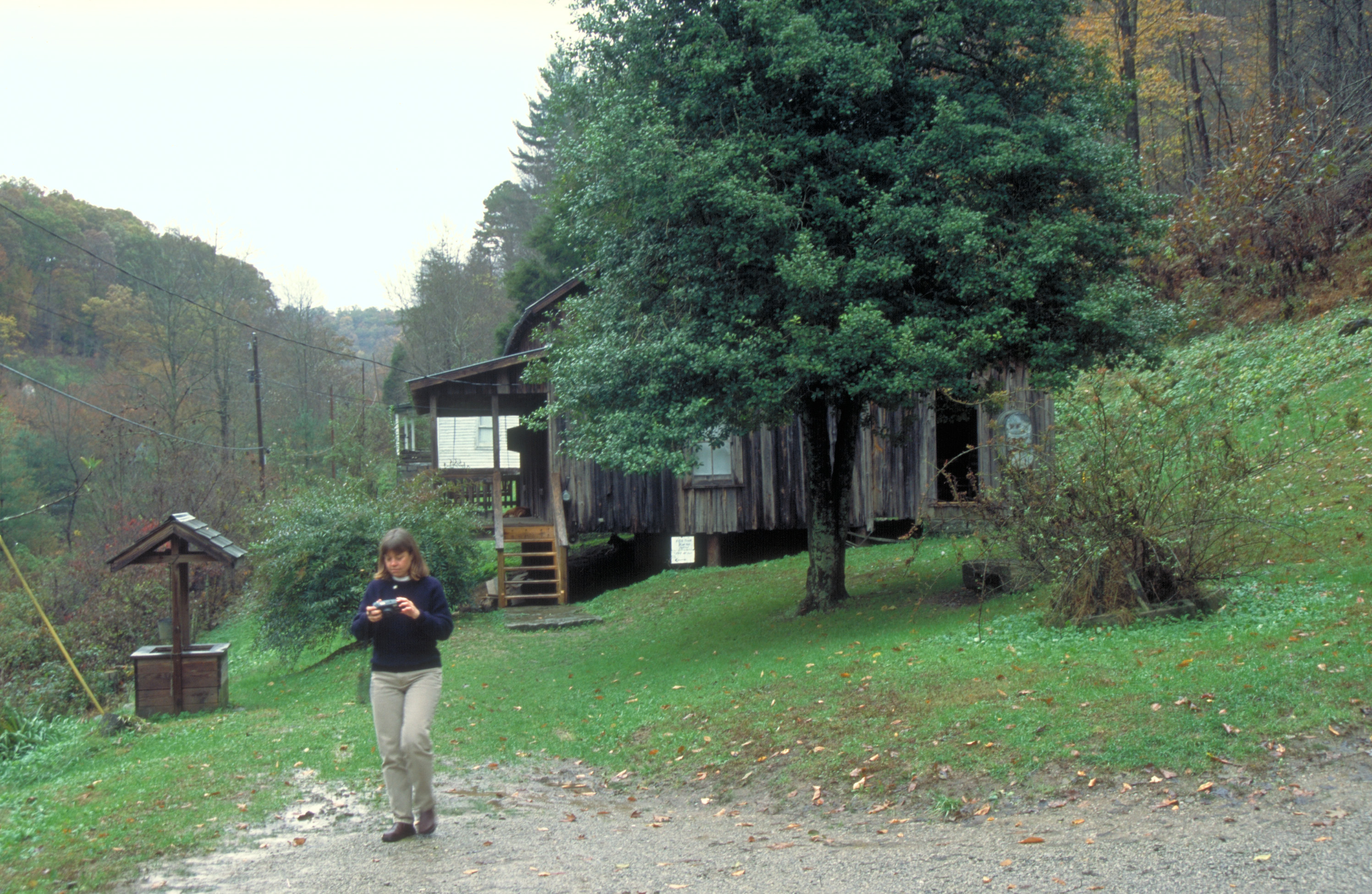 Childhood home of Loretta Lynn.